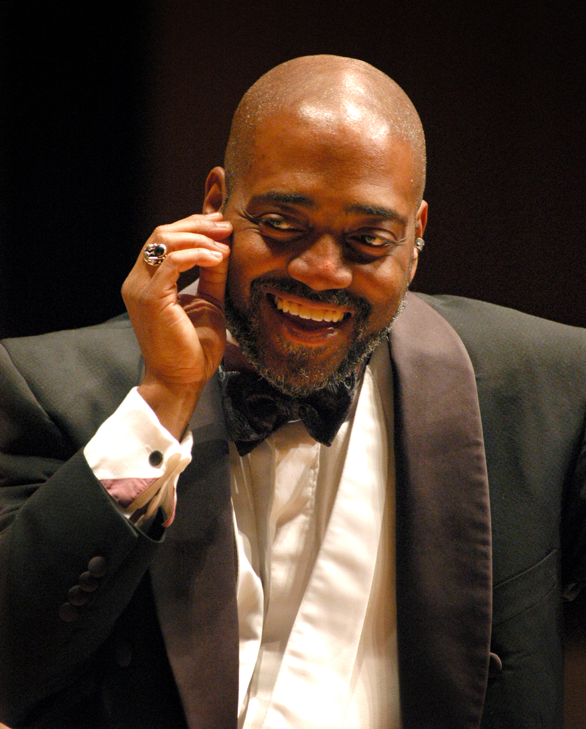 A publicity photo of William Eddins, taken in October 2004 at the Winspear Centre in Edmonton, Alberta.